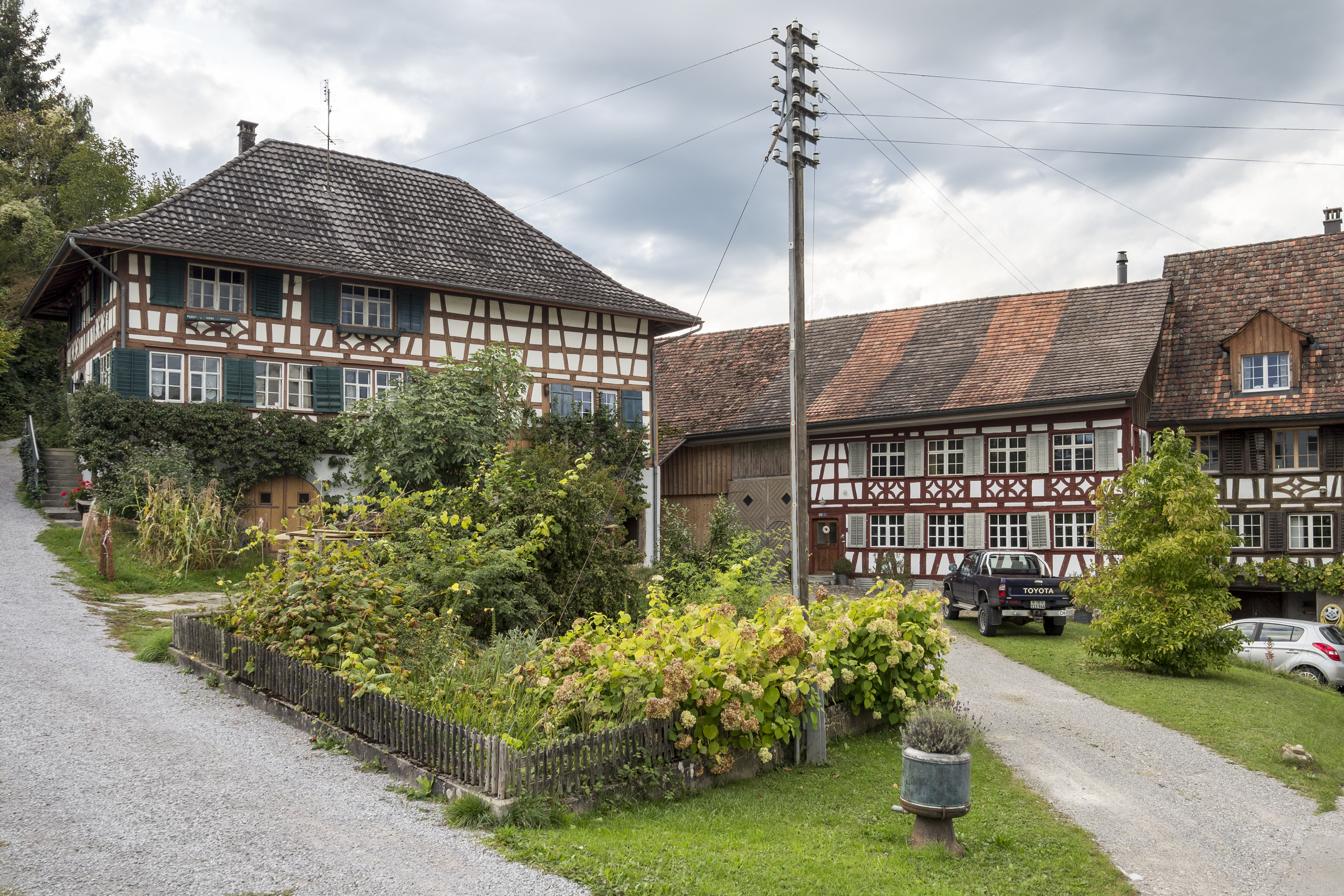 Amlikon, Klösterli 1, 3 und 5: timber framed houses of the 18th/19th century.